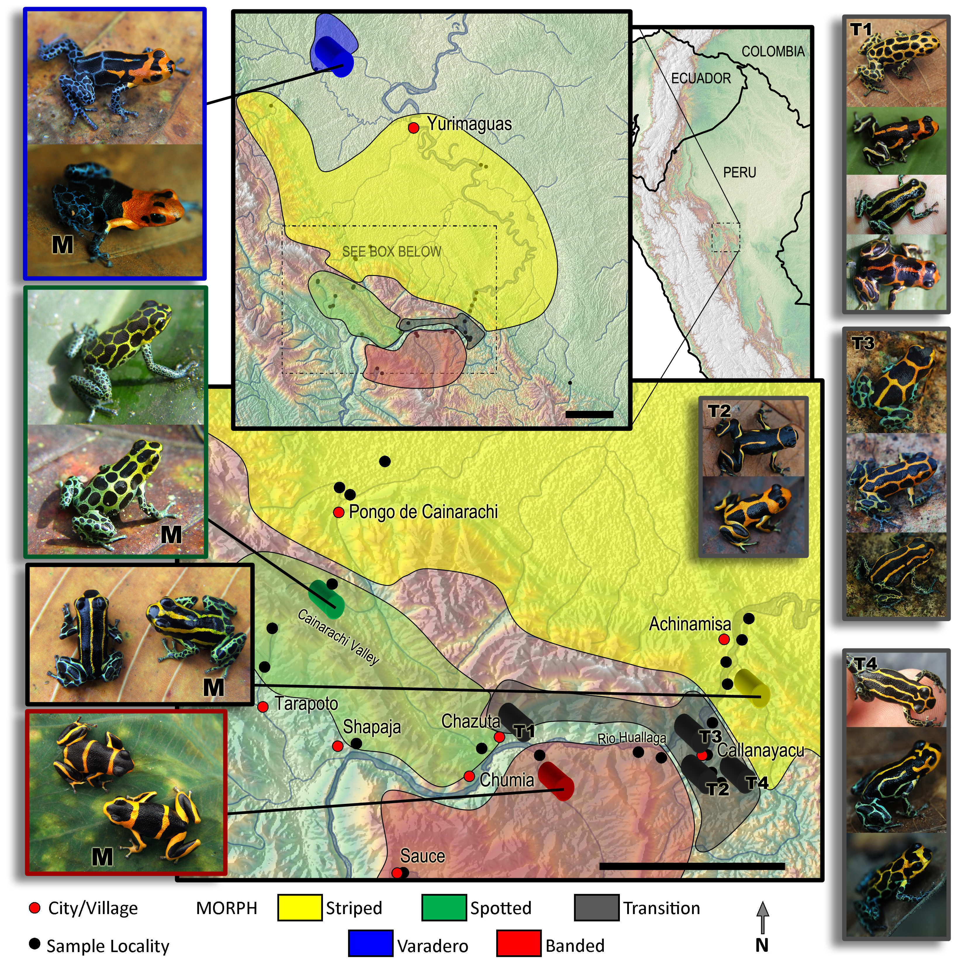 Ranitomeya imitator